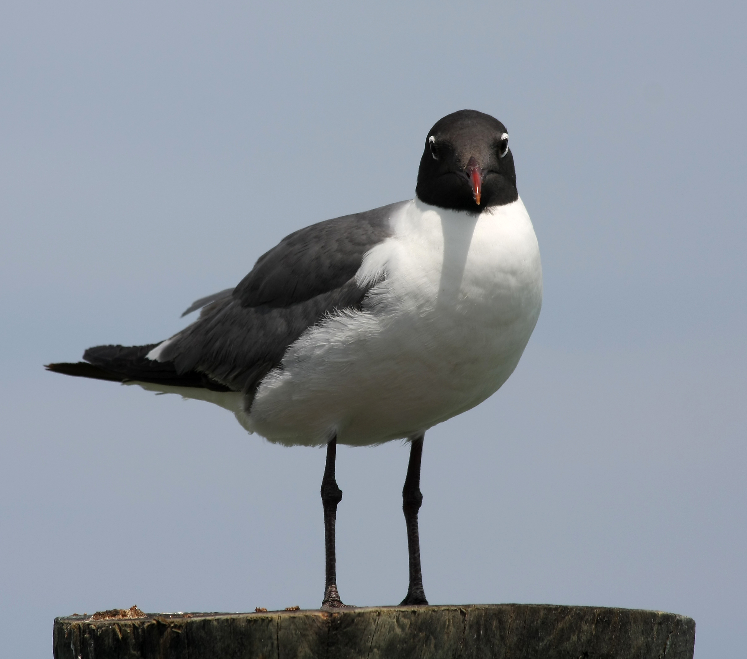 A Laughing Gull in summer plumage, in the Florida Keys.